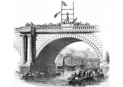 American stunt performer Samuel Gilbert Scott jumping from a scaffold on Waterloo Bridge in London, England. Print reproduced at Caption there reads: "Samuel Scott leaping from Waterloo Bridge. Print PD"